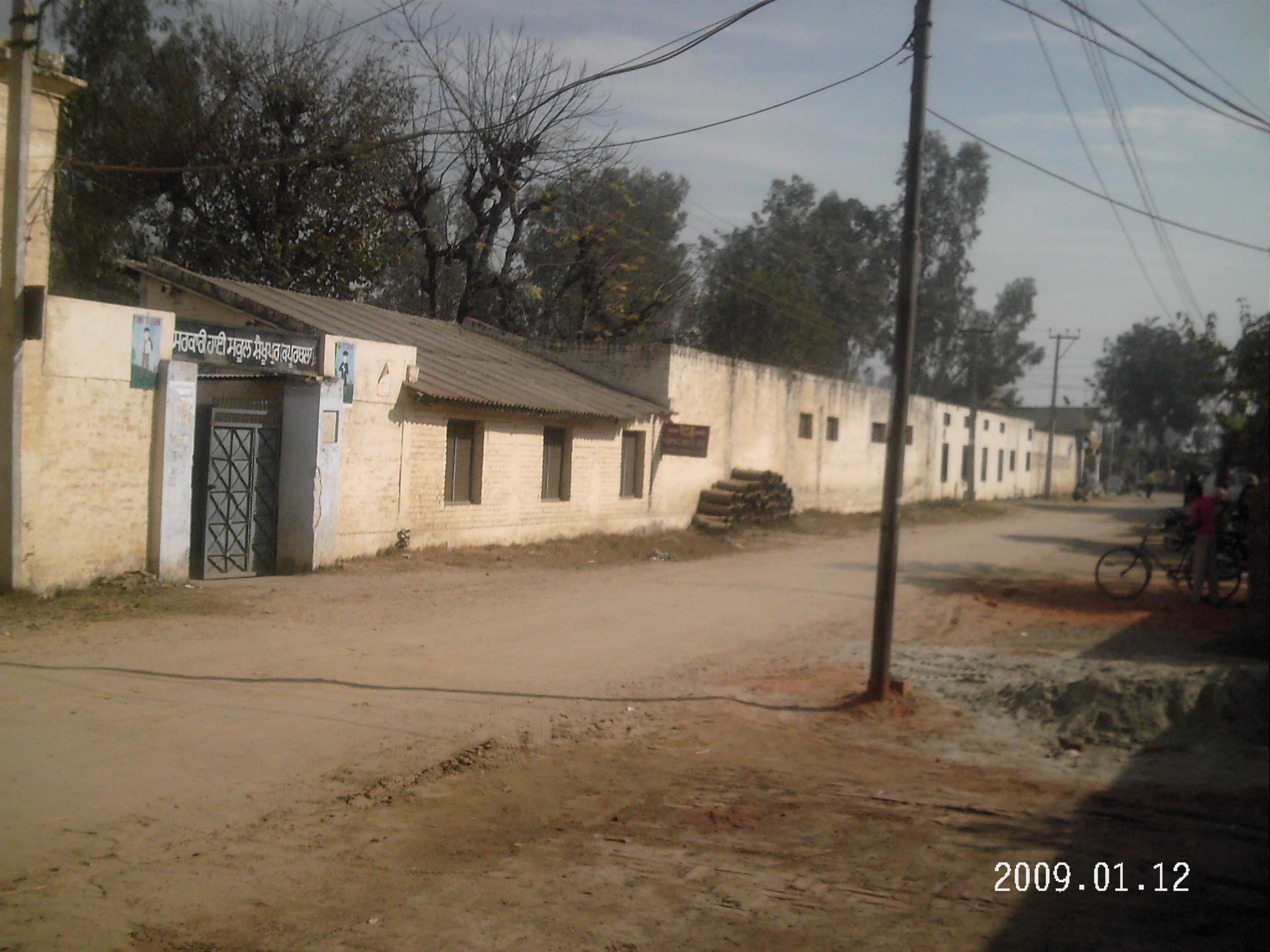 Sukhjinder Pal DR RANT DEV KAURA